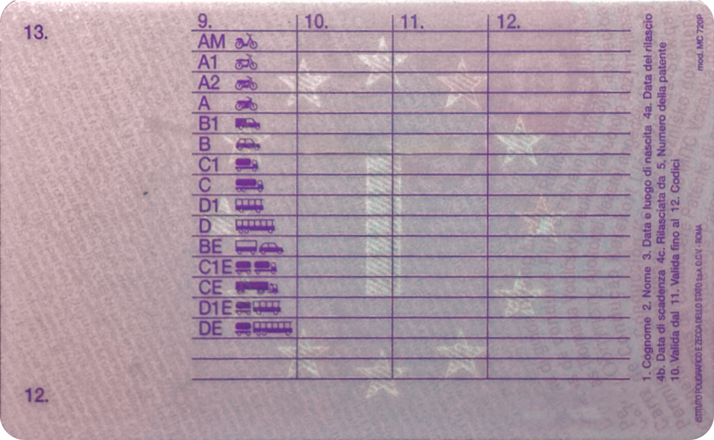 Specimen for the European driving licence used in Italy, back side under Wood's lamp.